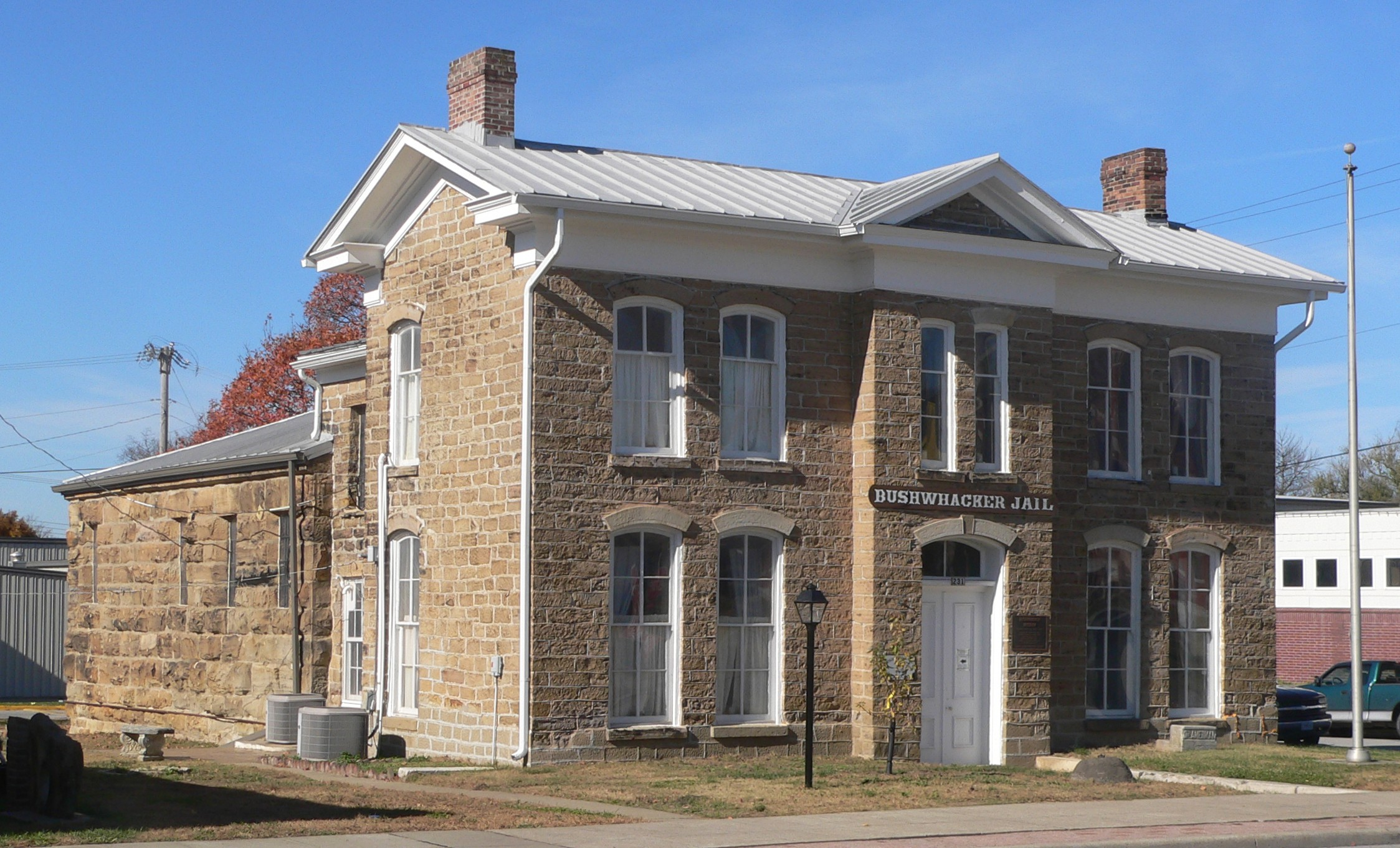 Bushwhacker Museum, at southwest corner of Main and Hunter Streets in Nevada, Missouri; seen from the southeast, looking obliquely across Main.